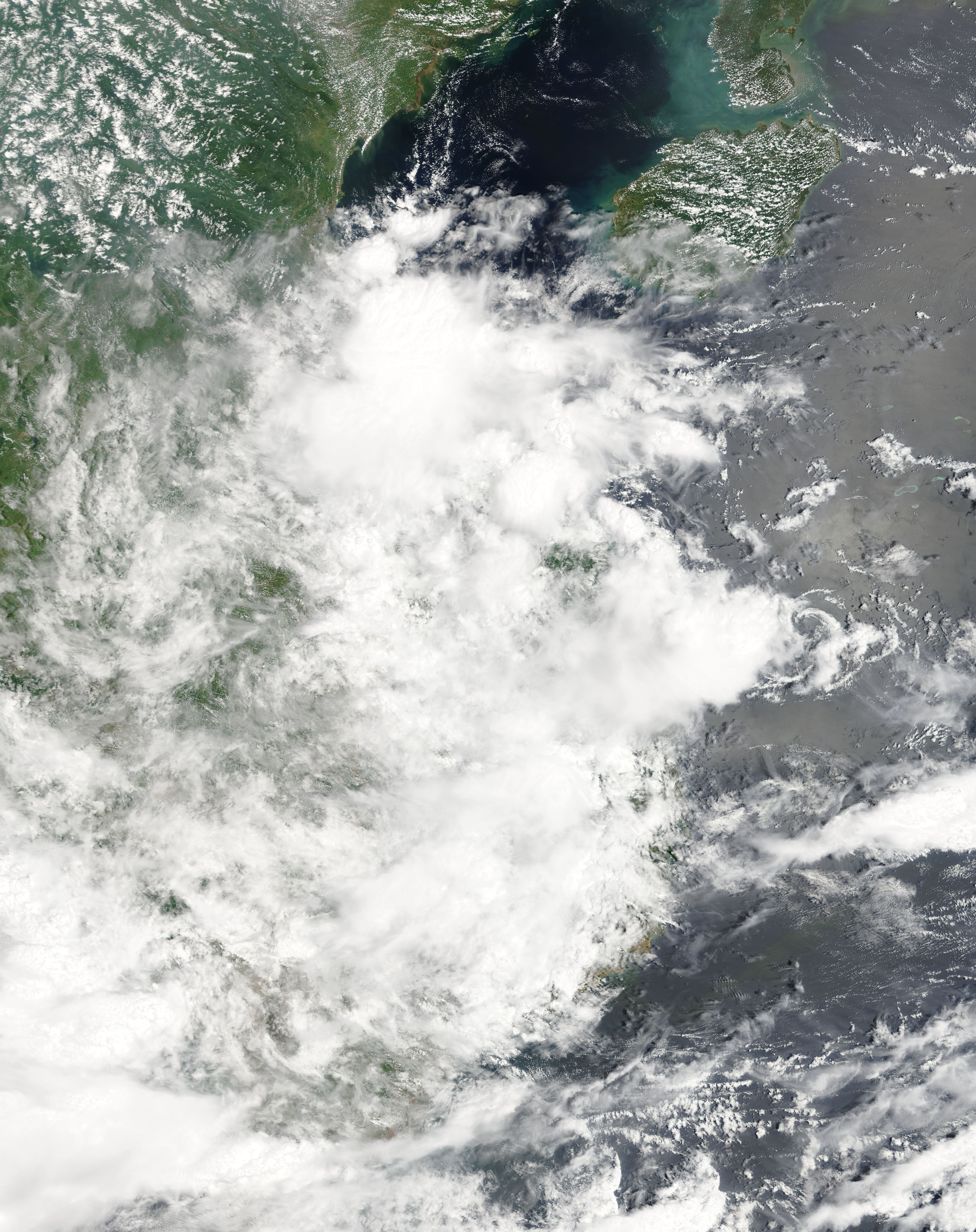 JMA TD 20 before landfall.